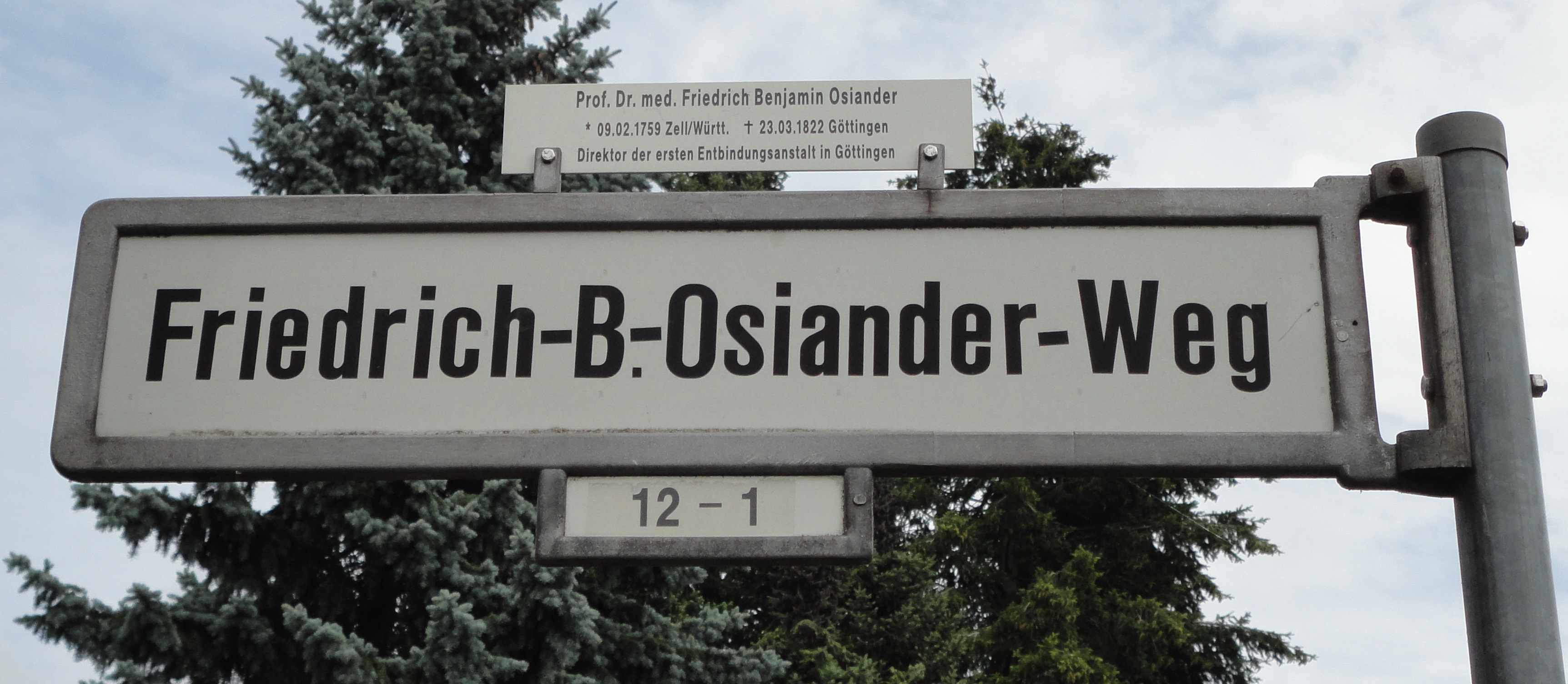 Göttingen-Weende, road sign Friedrich-Benjamin-Osiander-Weg